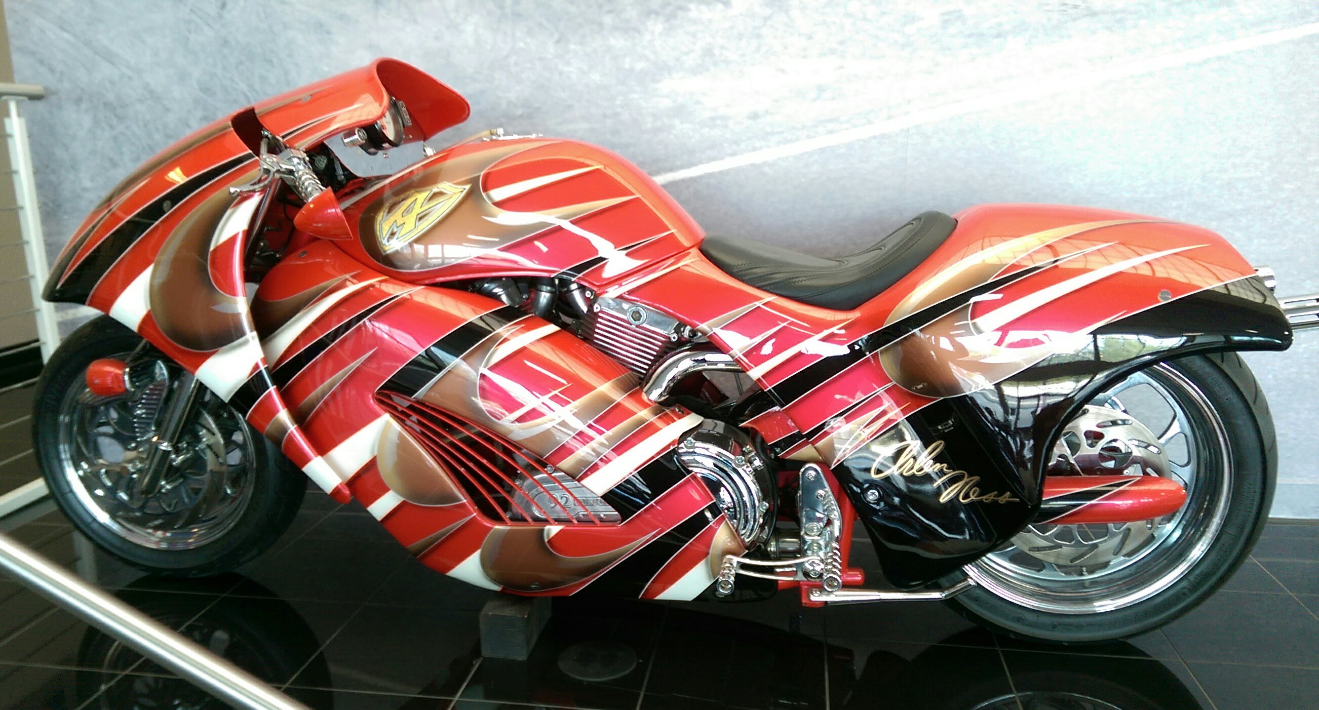 A custom streamlined motorcycle designed by Arlen Ness. Photo by Jim Heaphy.